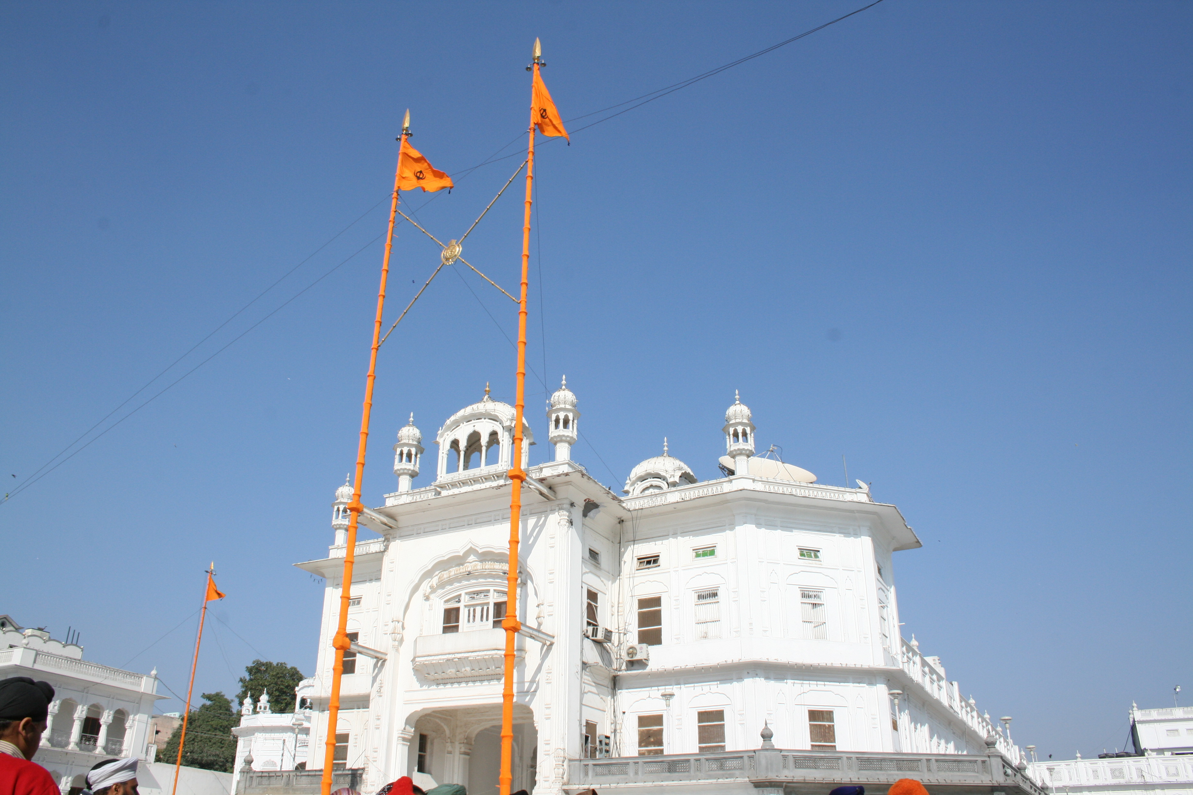 Harmandir Sahib or the Golden Temple, Amritsar, India